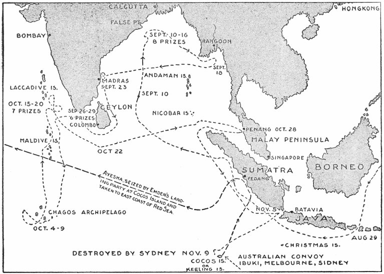 Map showing the cruise of German raider, light cruiser SMS Emden in the Indian Ocean September - November 1914.